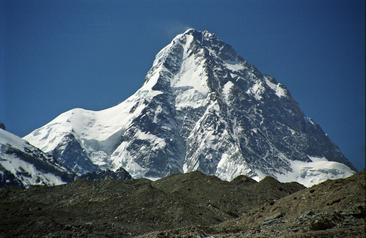 K2 from the north